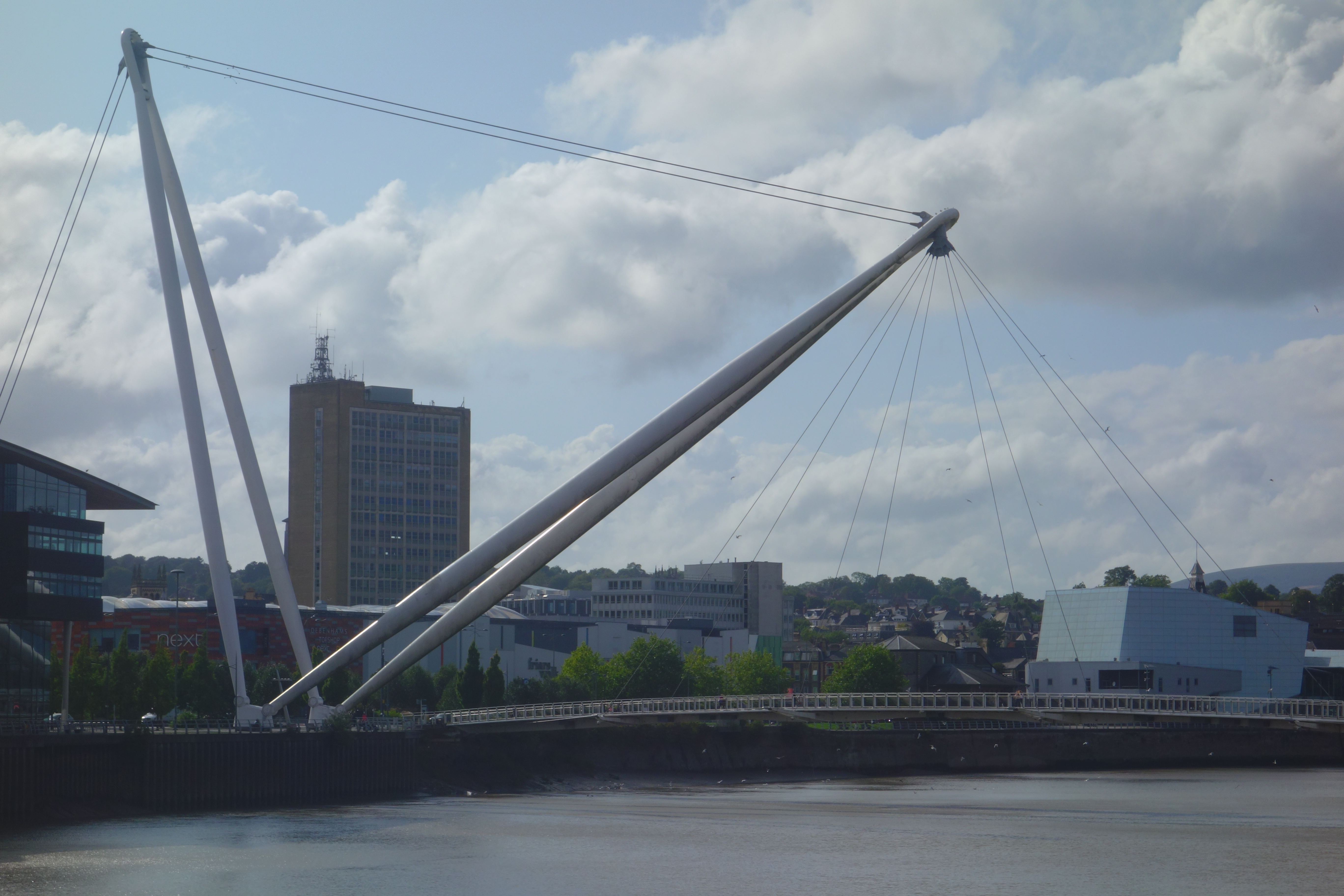 The City Footbridge, crossing the River Usk in Newport, Wales.